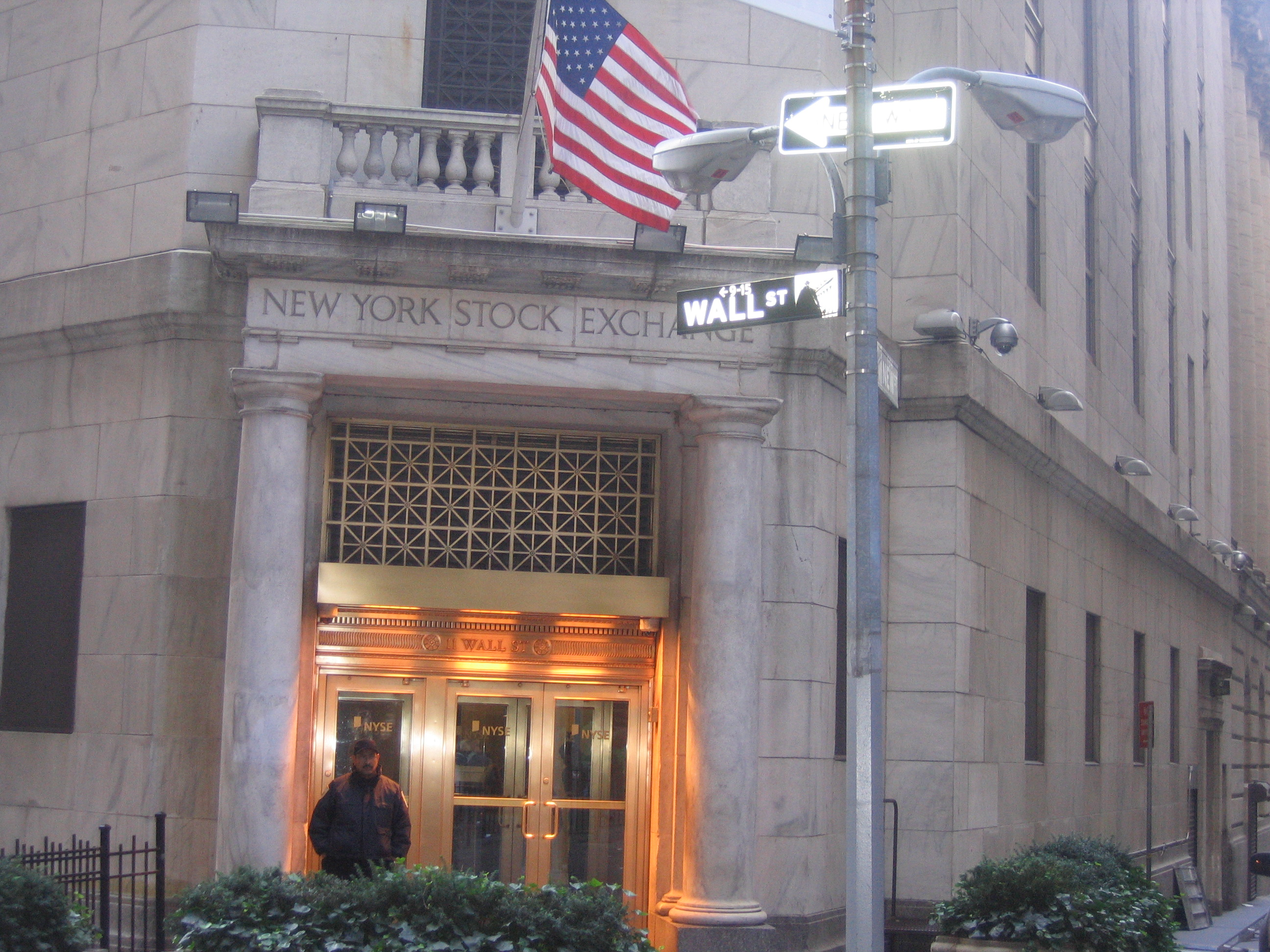 A close shot of Wall Street showing the north entrance of New York Stock Exchange